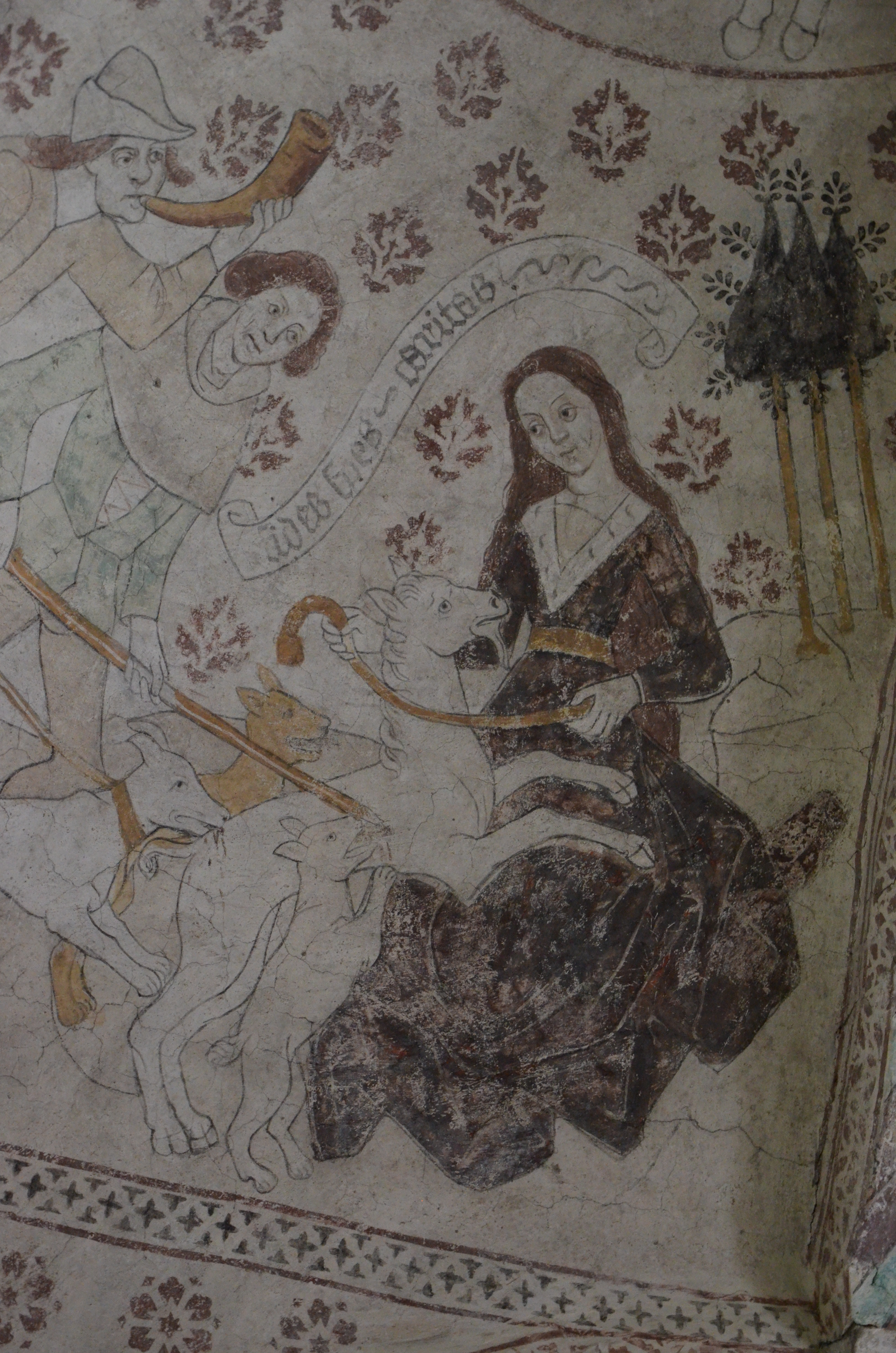 Painting by Albertus Pictor in Almunge Church